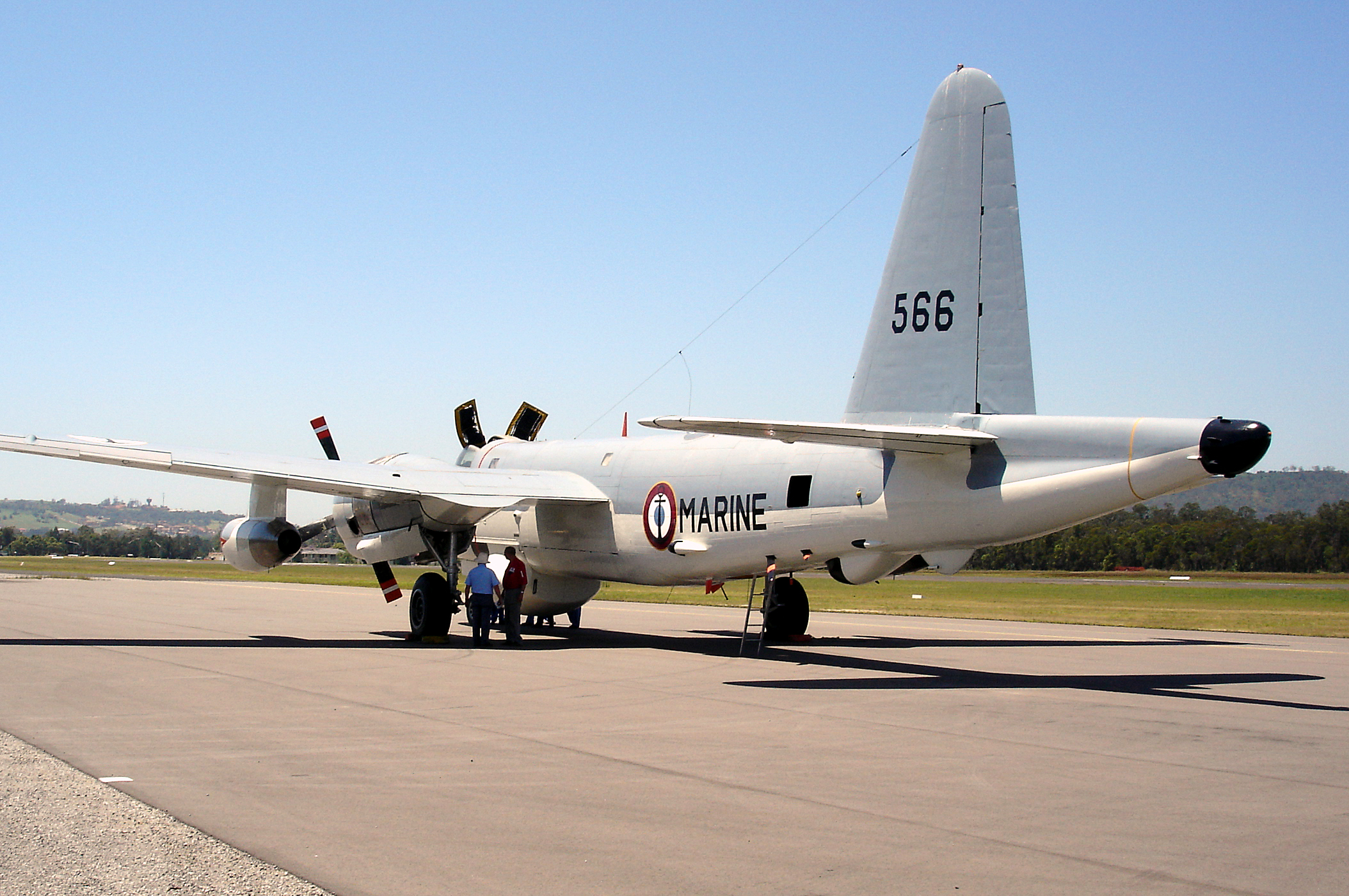 The Lockheed P-2H Neptune 566 (U.S. BuNo. 147566, serial number 7183) was one of twenty six operated by the Marine Nationale (French navy) from 15 April 1969 to 1984 and was allocated to 12F Squadron (Escardrille). The aircraft was eventually based on the French Polynesian territorial island of Tahiti in the Pacific and was operated on patrol duties during the early 1980's in connection with the French nuclear test program Moruroa Atoll, and was retired from French marine service in 1984 and stored at Papeete International Airport, Tahiti. In 1987 a representative from HARS wanted to buy one of three P-2s at Tahiti. The Historical Aircraft Restoration Society (HARS) was formed in 1979 by a group of aviation enthusiasts interested in the preservation of Australian Aviation History. An inspection of the P-2H 147566 revealed that the aircraft was in sound condition, missing some instruments and with tanks still containing 900 l/2000 lbs of fuel. It had flown a total of 2,430 hours and was considered to be in excellent condition, also, the aircraft had been extensively overhauled just prior to being de-commissioned in 1983. It was not until July 1989 that the Neptune 147566 was restored to flying condition and could be flown from Tahiti to Australia. Neptune 566 was placed on the Australian civil register as VH-LRR, and, after a number of public appearances at air shows, was positioned to Tamworth for storage and care. In September 1999 the aircraft was ferried from Tamworth to Bankstown for the purpose of undergoing an extensive overhaul programme by the Society. VH-LRR was flown to the new HARS base at the Illawarra Regional Airport, Albion Park in January 2003 where the overhaul work continues pending return to full flying status.HARS Neptune, Wollongong New South Wales